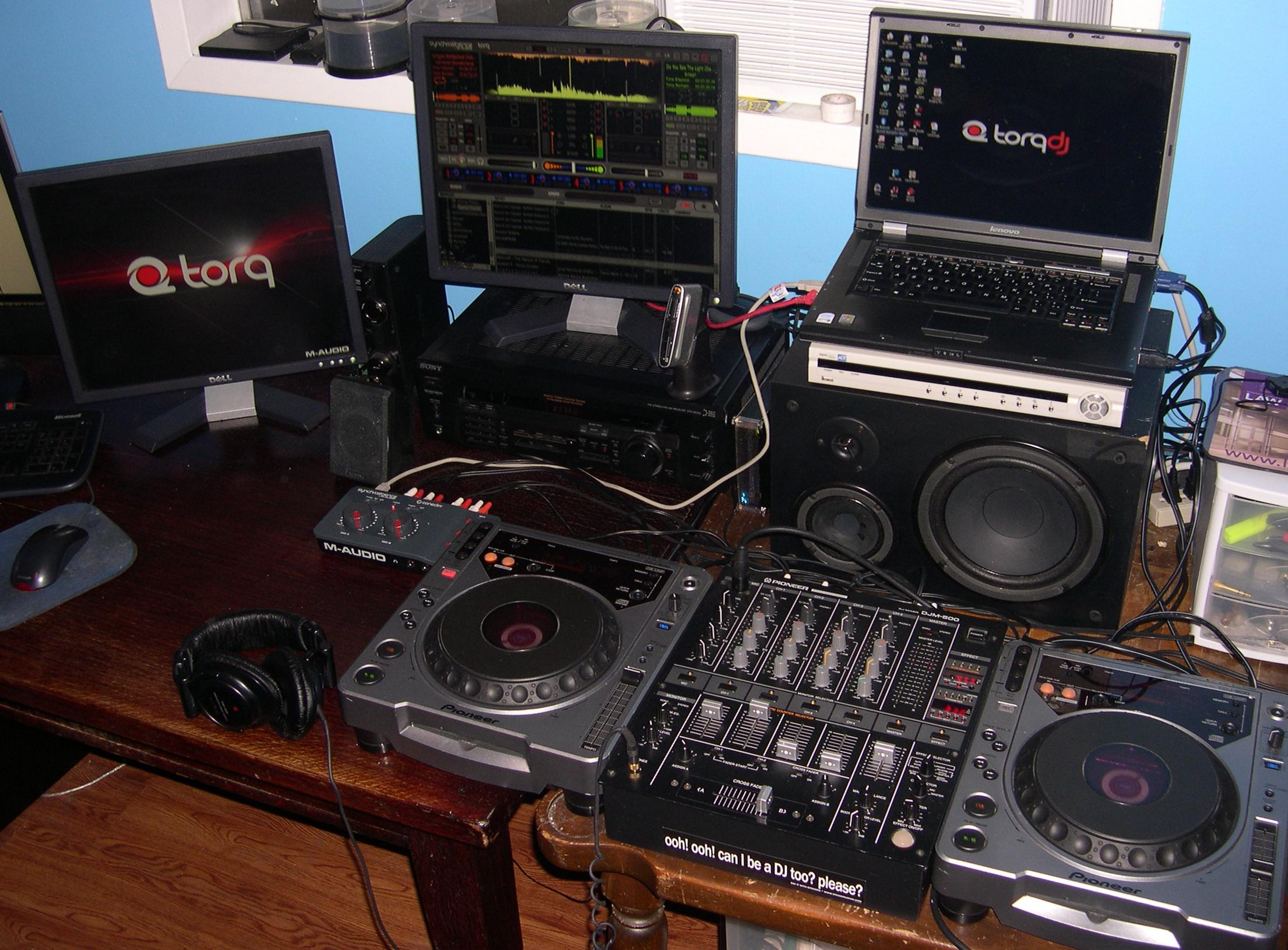 My M-Audio / Pioneer CDJ setup. /Blaxthos 05:04, 30 October 2007 (UTC) Contents 1 Equipment 2 Requirements 3 Licensing 4 Original upload log Equipment Pioneer CDJ-800 (2)siya Pioneer DJM-500 Sony MDR-V600 M-Audio Conectiv M-Audio Torq (software) Requirements Attribution to creator must be given if reproduced or redistributed.